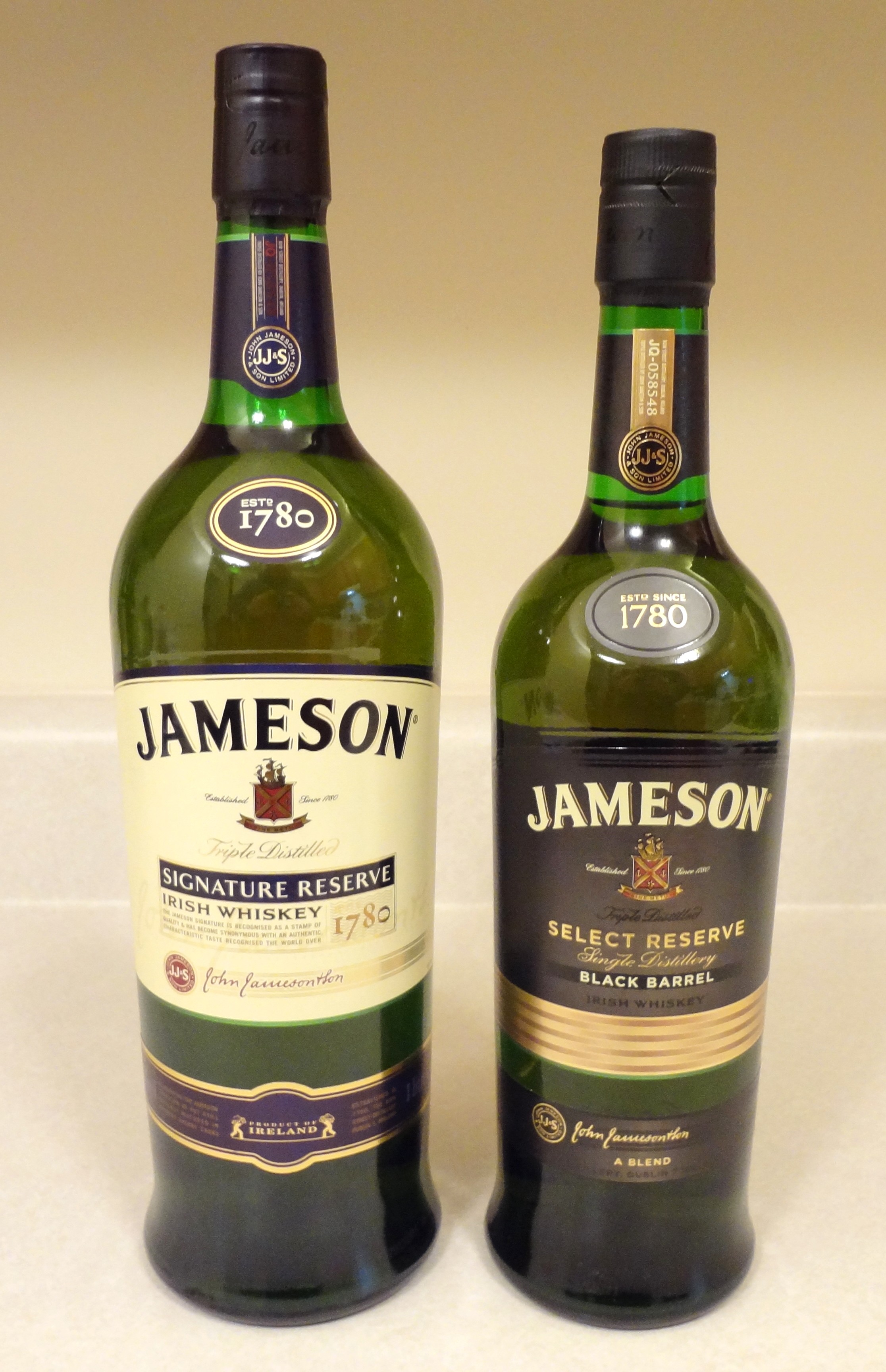 Jameson Signature Reserve & Jameson Black Barrel Select Reserve